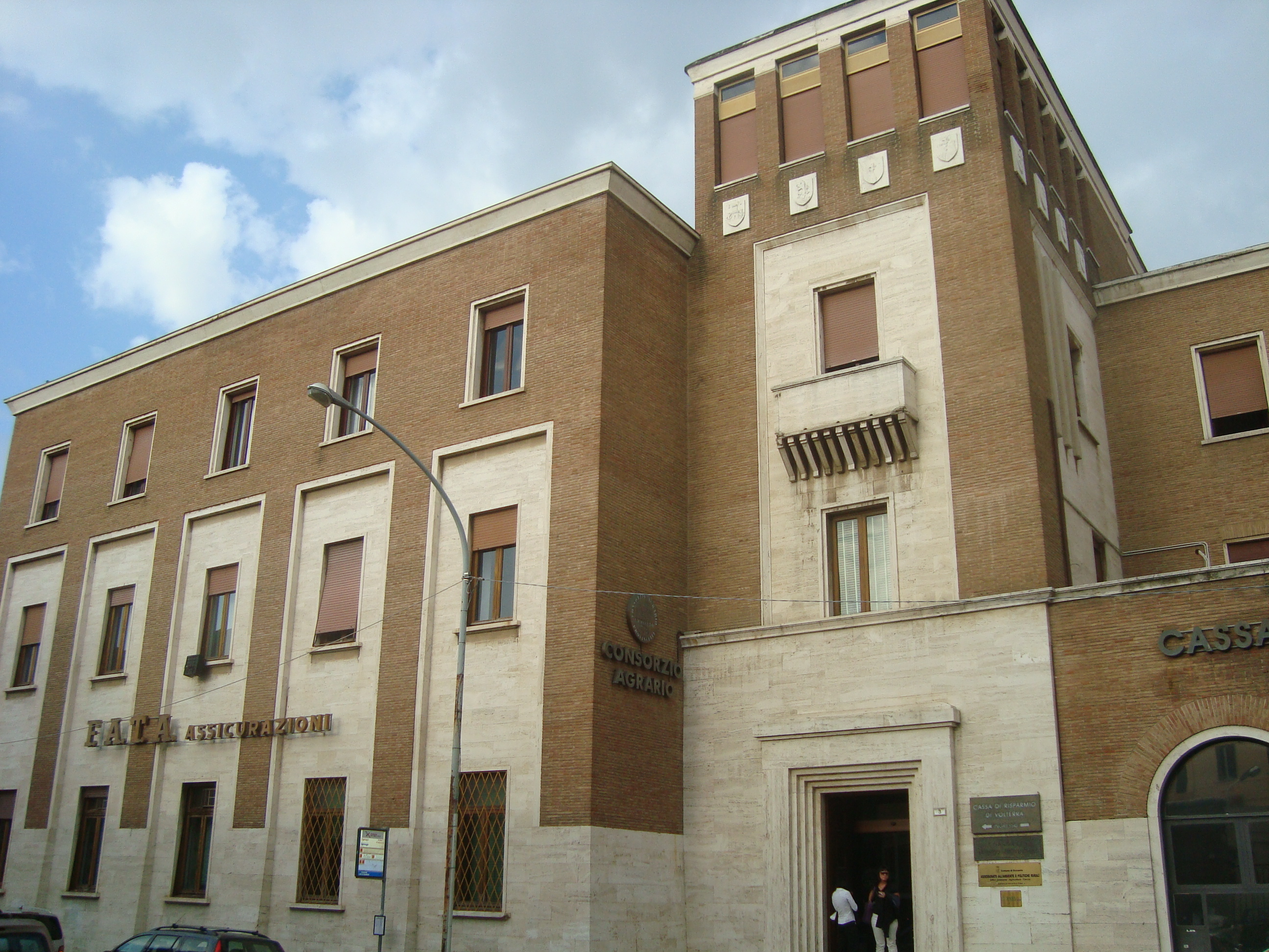 Umberto Tombari, Consorzio Agrario Provinciale (1940) in Grosseto